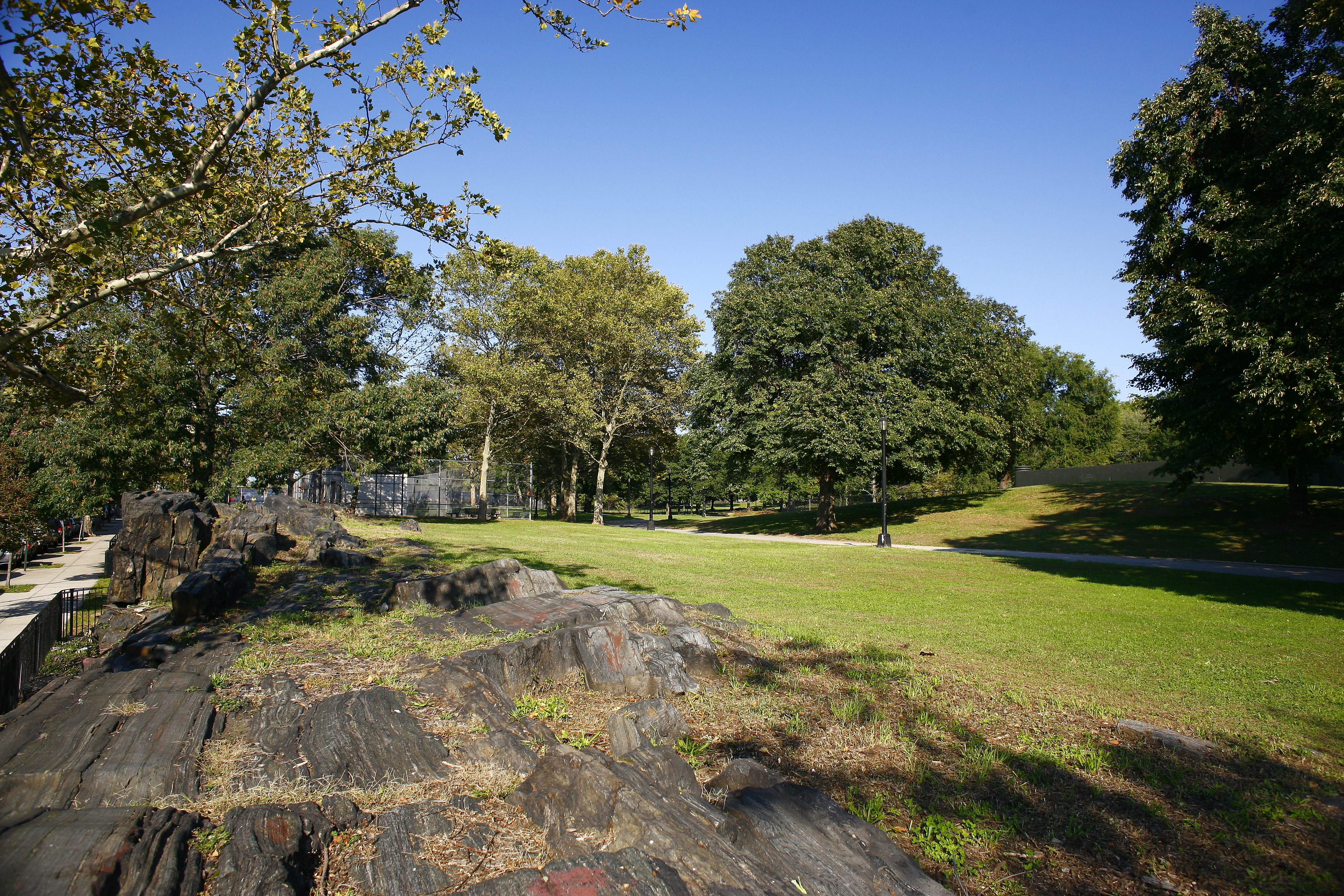 This photo is of Wikis Take Manhattan goal code N4, Crotona Park.